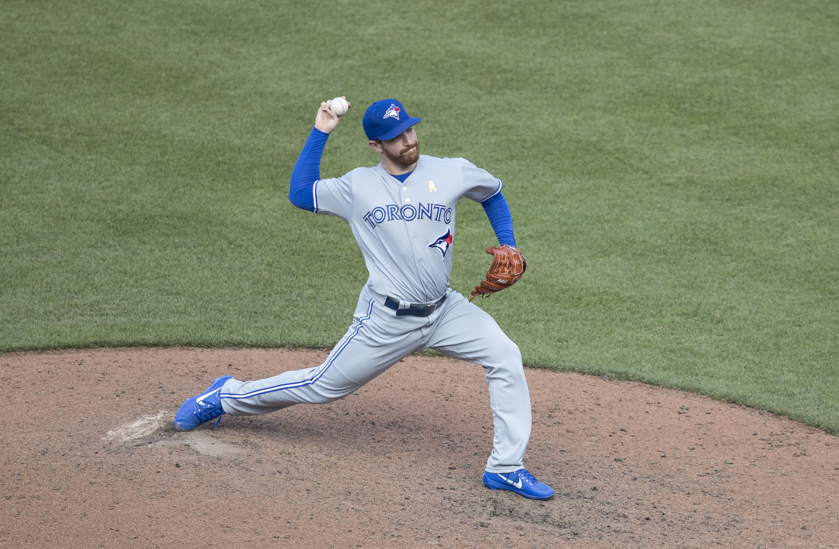 Danny Barnes of the Toronto Blue Jays